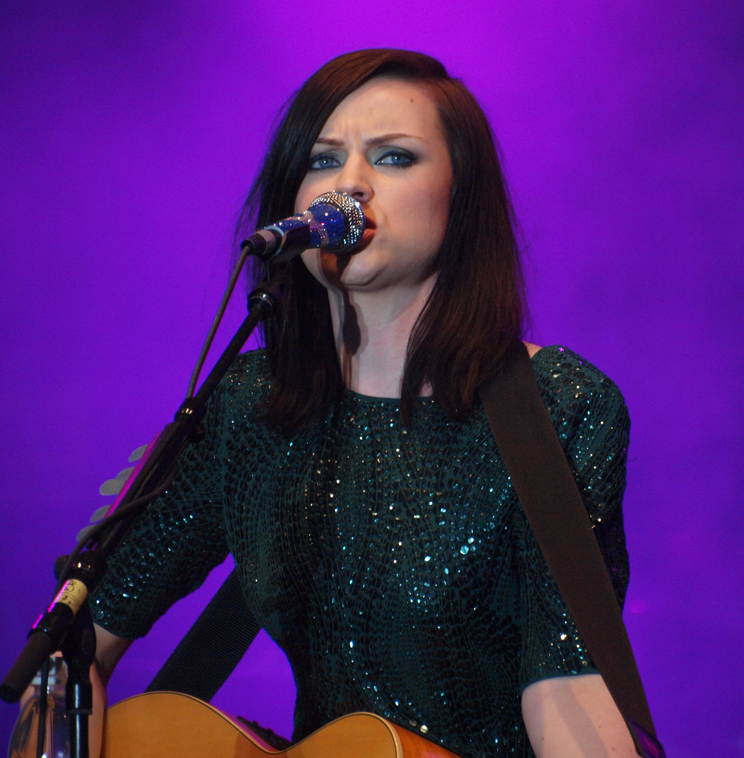 Amy Macdonald at Rix FM Festival in Kungsträdgården, Stockholm